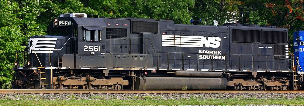 I saw a LOT of these, none in CR paint though Norfolk Southern 2561, EMD SD70